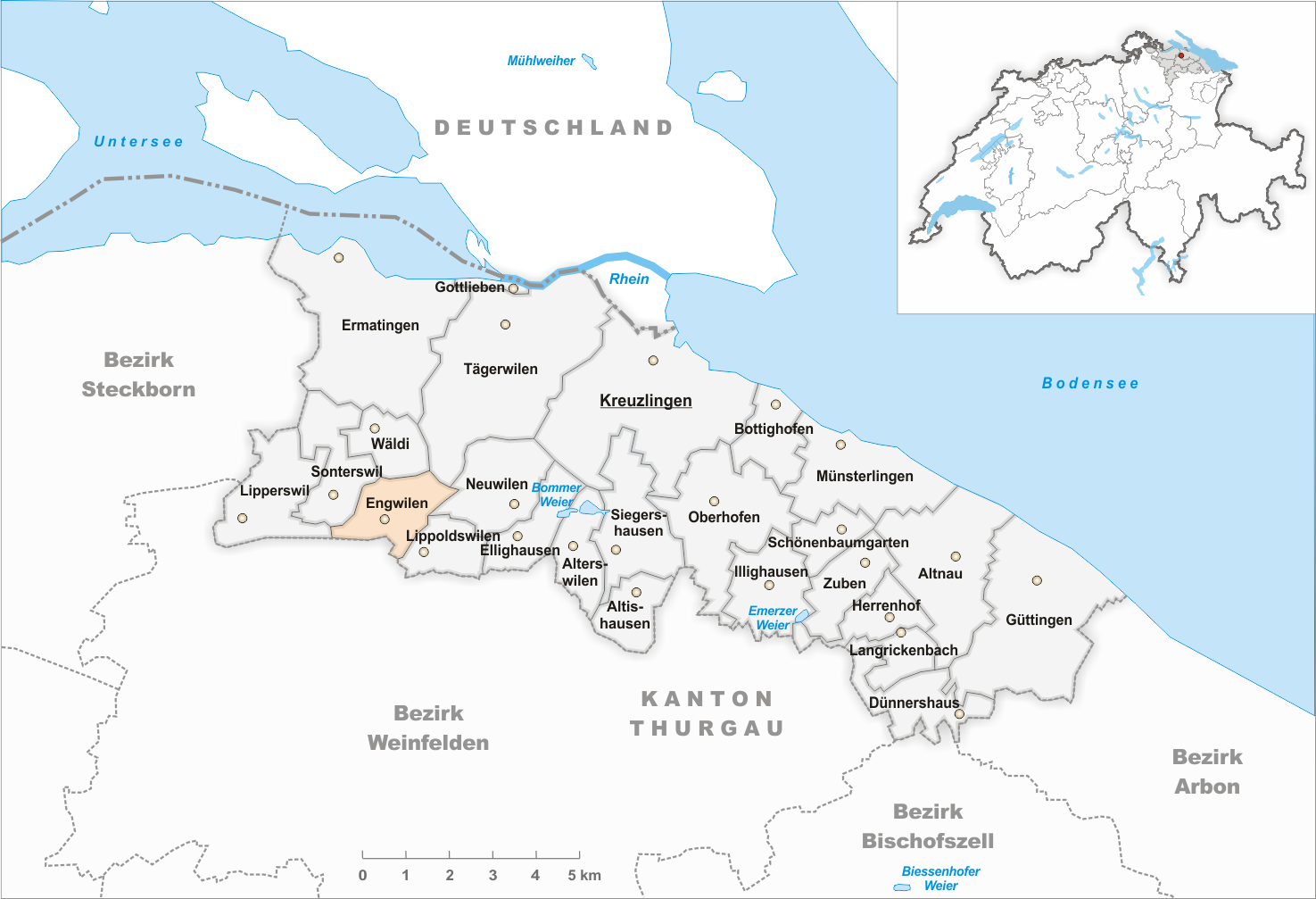 Municipality Engwilen